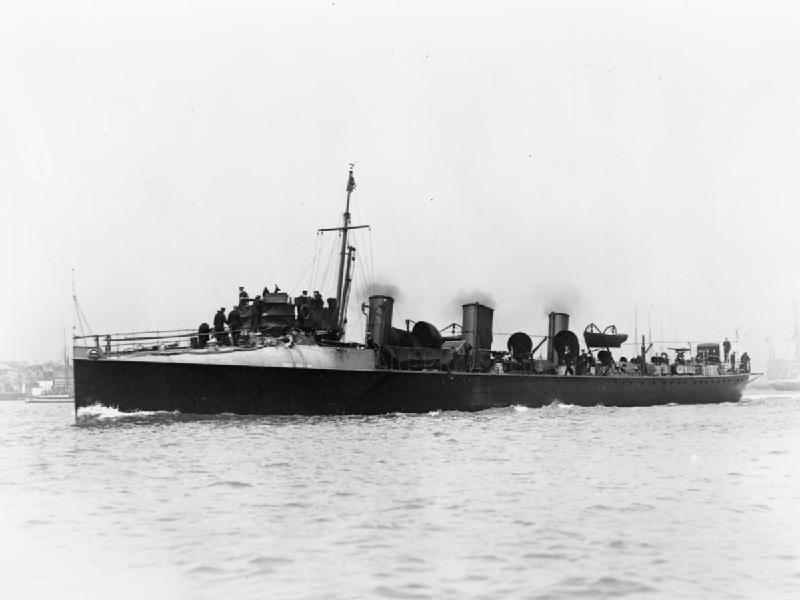 Royal Navy torpedo boat destroyer HMS Bat